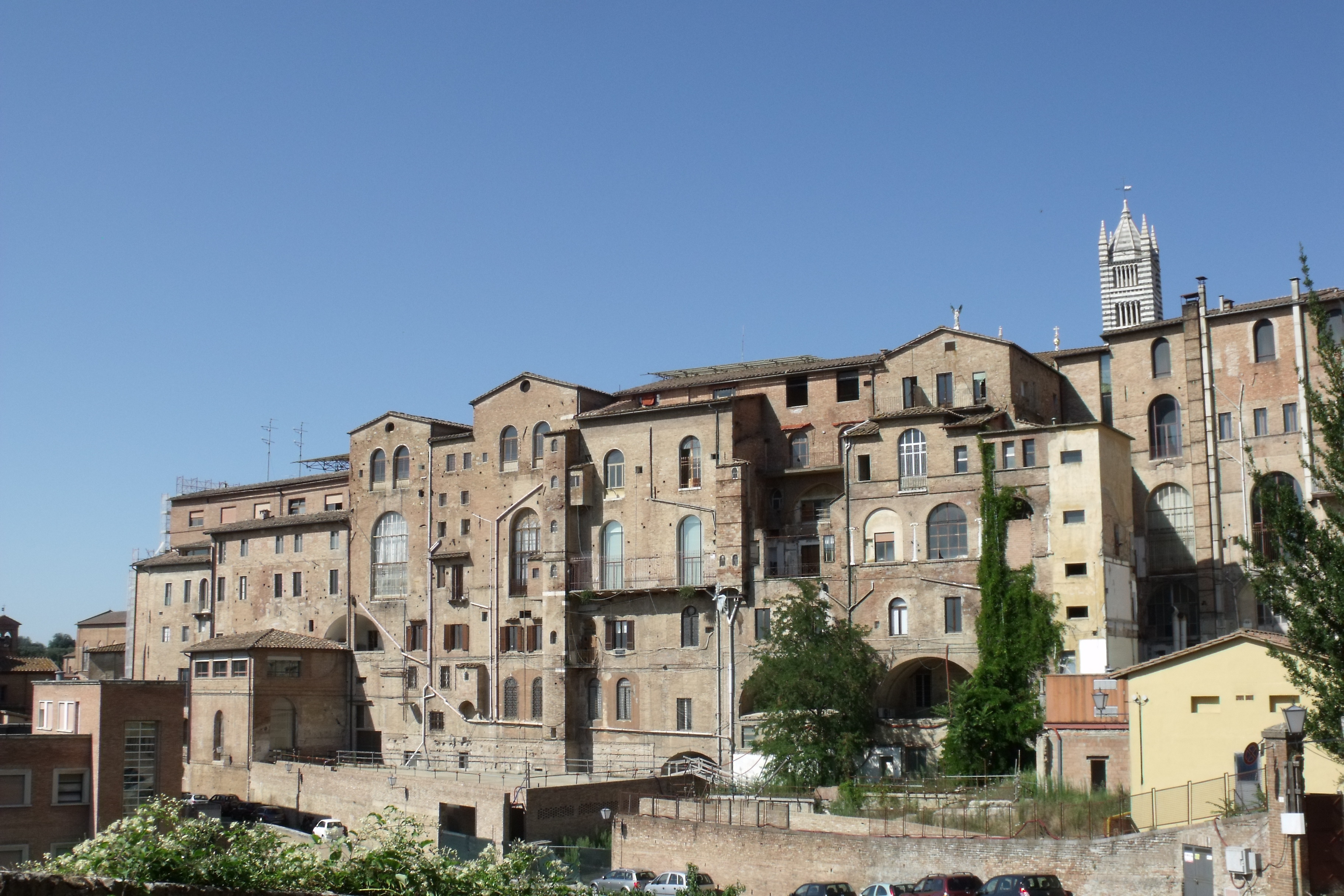 Panorama of the Hospital Santa Maria della Scala seen from the backside (Via del Chiasso di Sant’Ansano / Due Porte), Siena, Tuscany, Itay